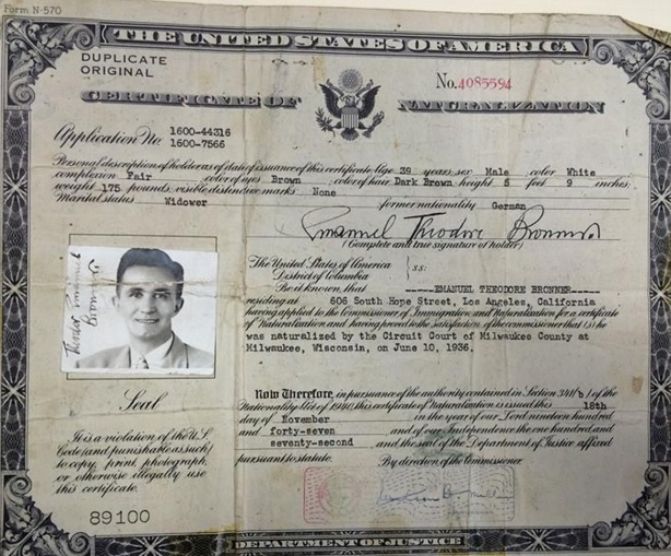 June 10, 1936 United States naturalization certificate for Emanuel Theodore Bronner